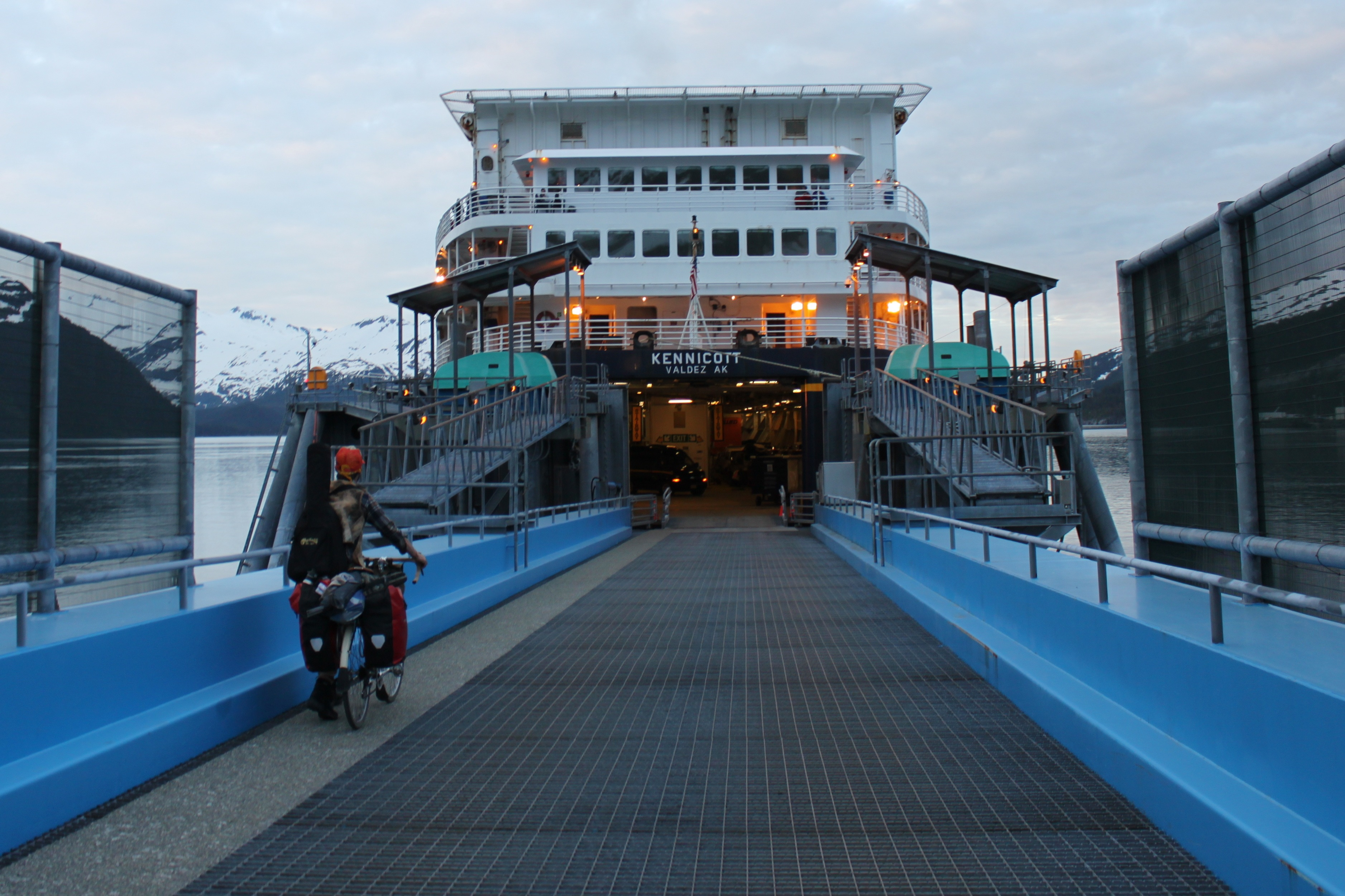 End-on view of the docked ferry, loading ramps, and a bicyclist.